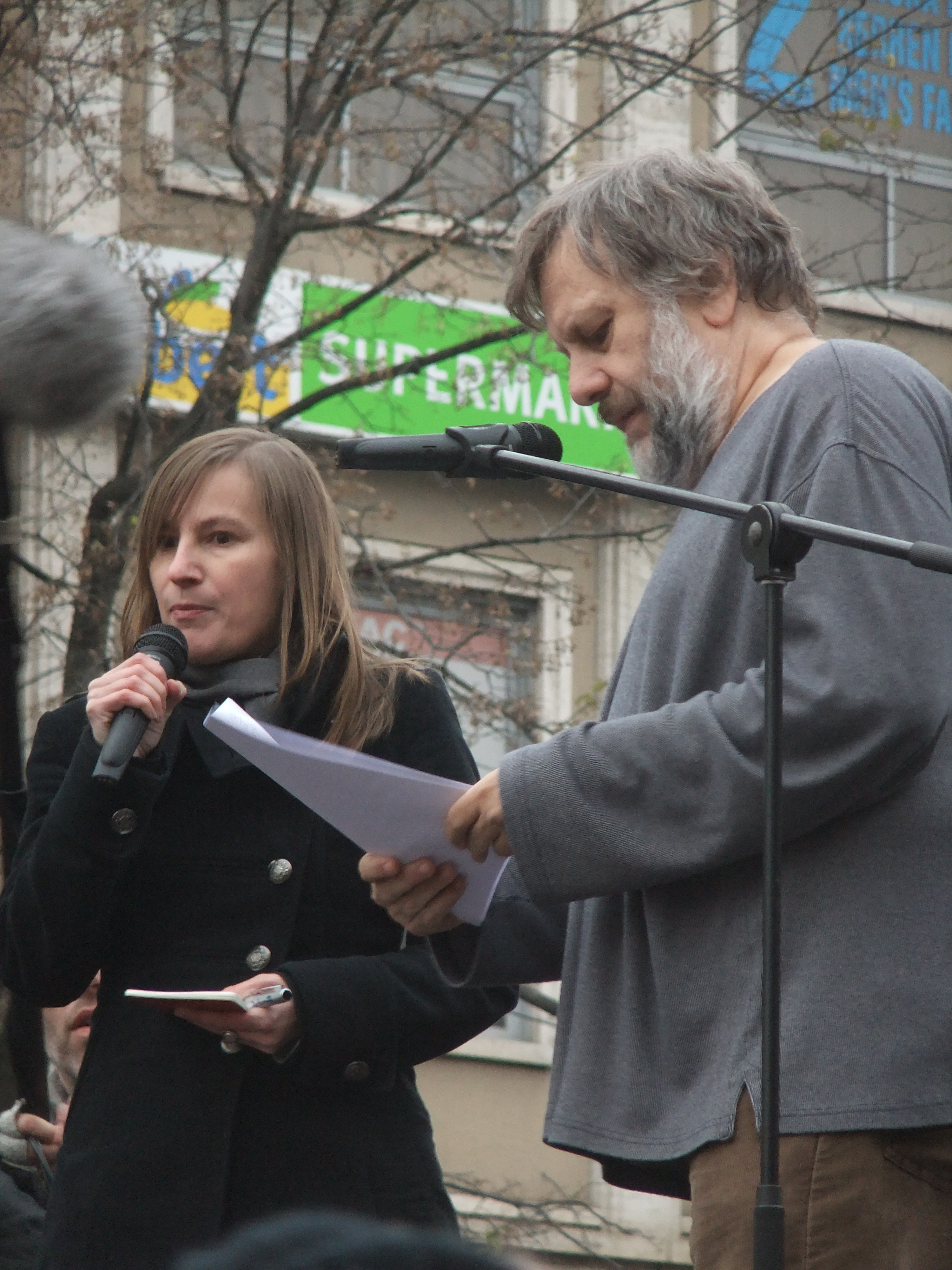 Slovenian philosopher Slavoj Žižek talking on the anti-government demonstration on Wenceslas Square in Prague, November 17, 2011.